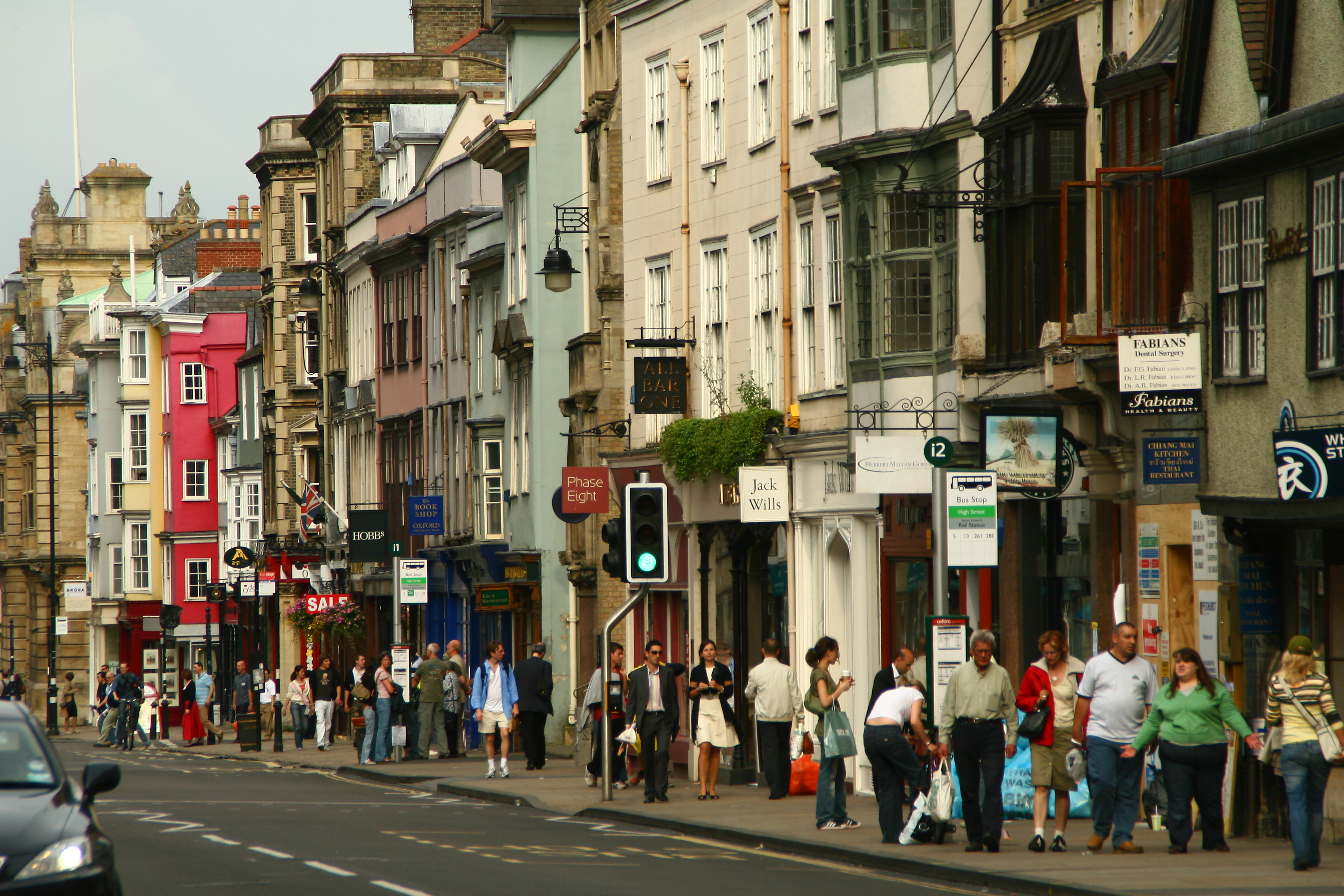 High Street, Oxford2007_07_15_oxford_169.JPG